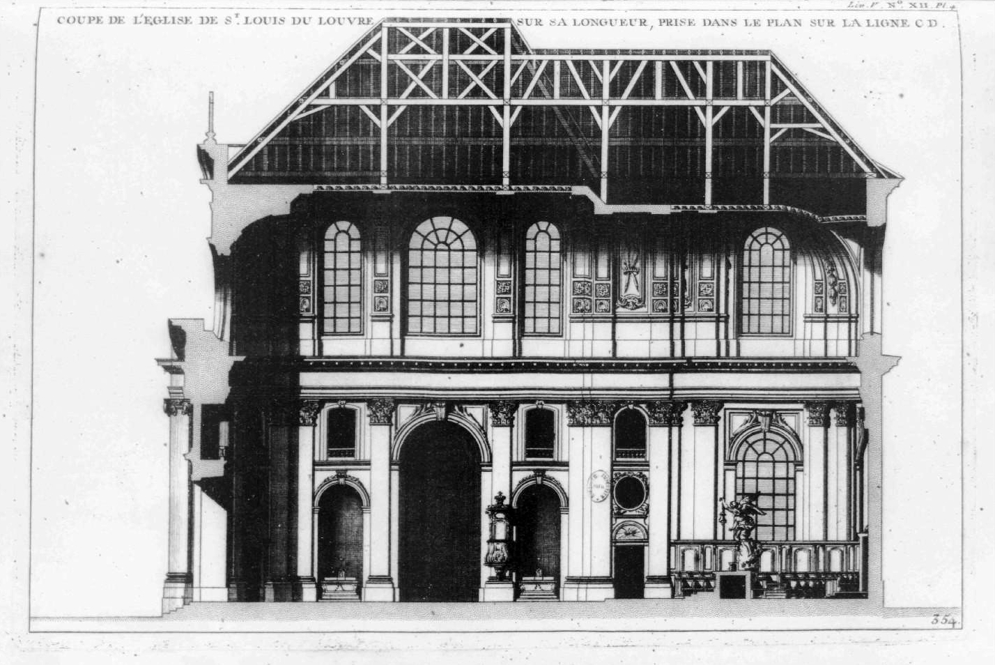 Cross section of the church Saint-Louis-du-Louvre in the book Architecture françoise, ou Recueil des plans, élévations, coupes et profils des églises, maisons royales, palais, hôtels & édifices les plus considérables de Paris. The church was built in 1744 and destroyed at the begin of the 19th century. The architect of the church was Thomas Germain.